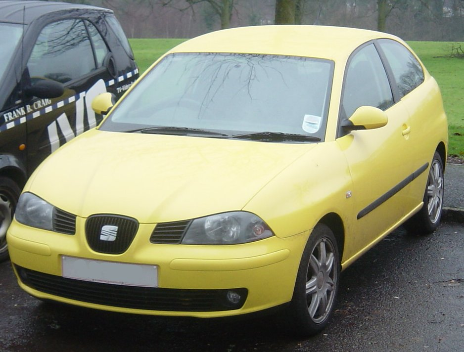 created by Mazurka